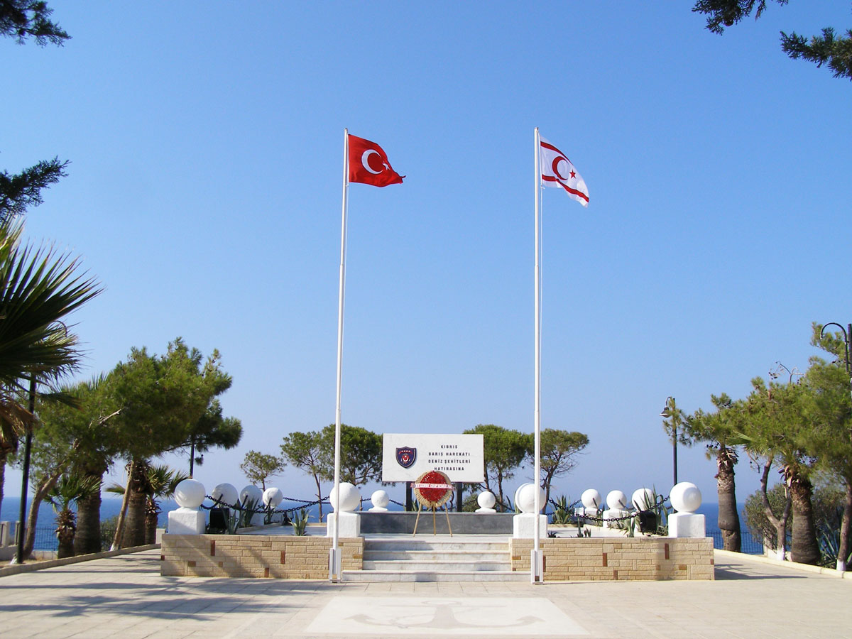 Flags of Turkey and Northern Cyprus in Girne